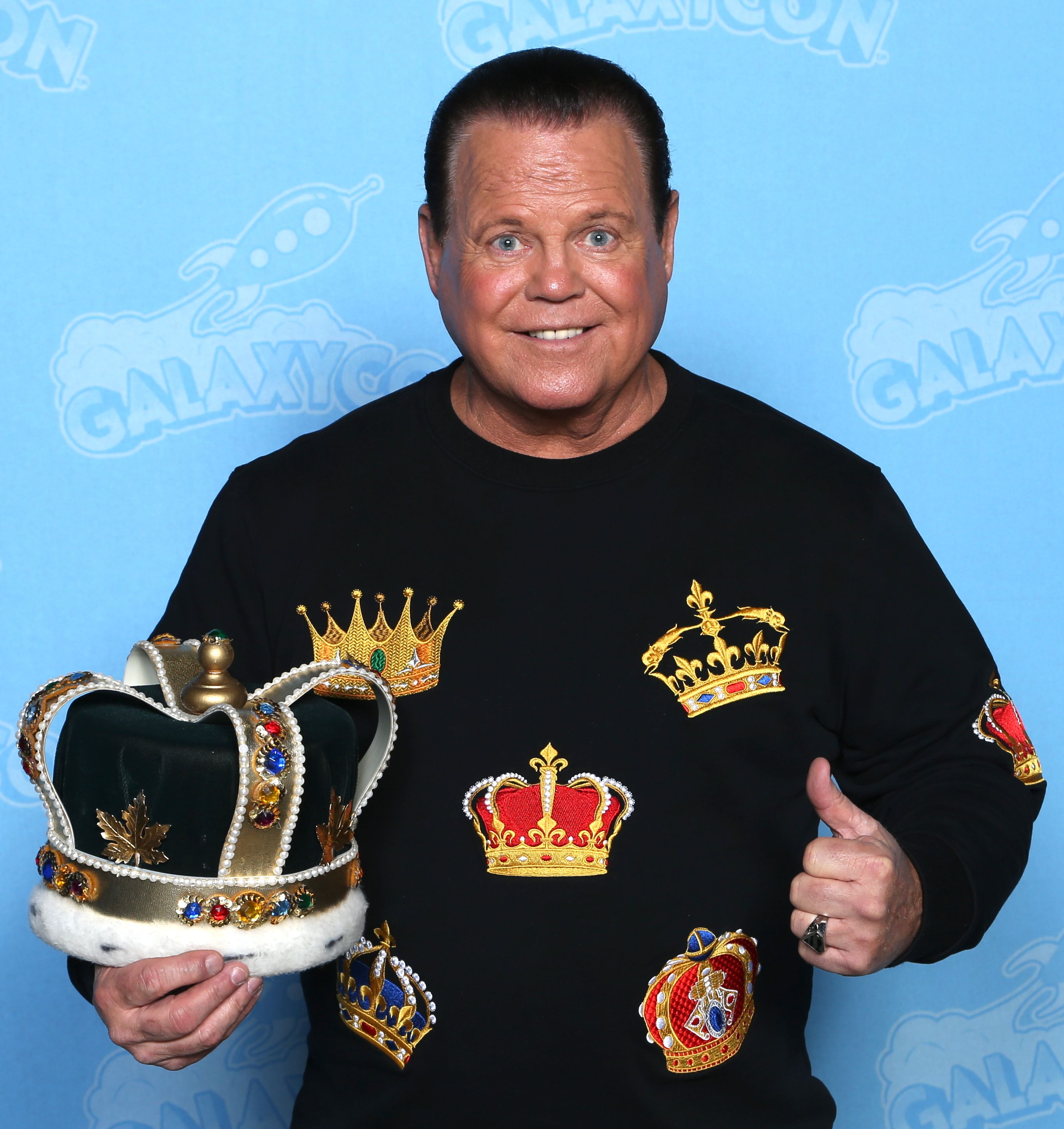 Jerry Lawler at GalaxyCon Richmond in 2020